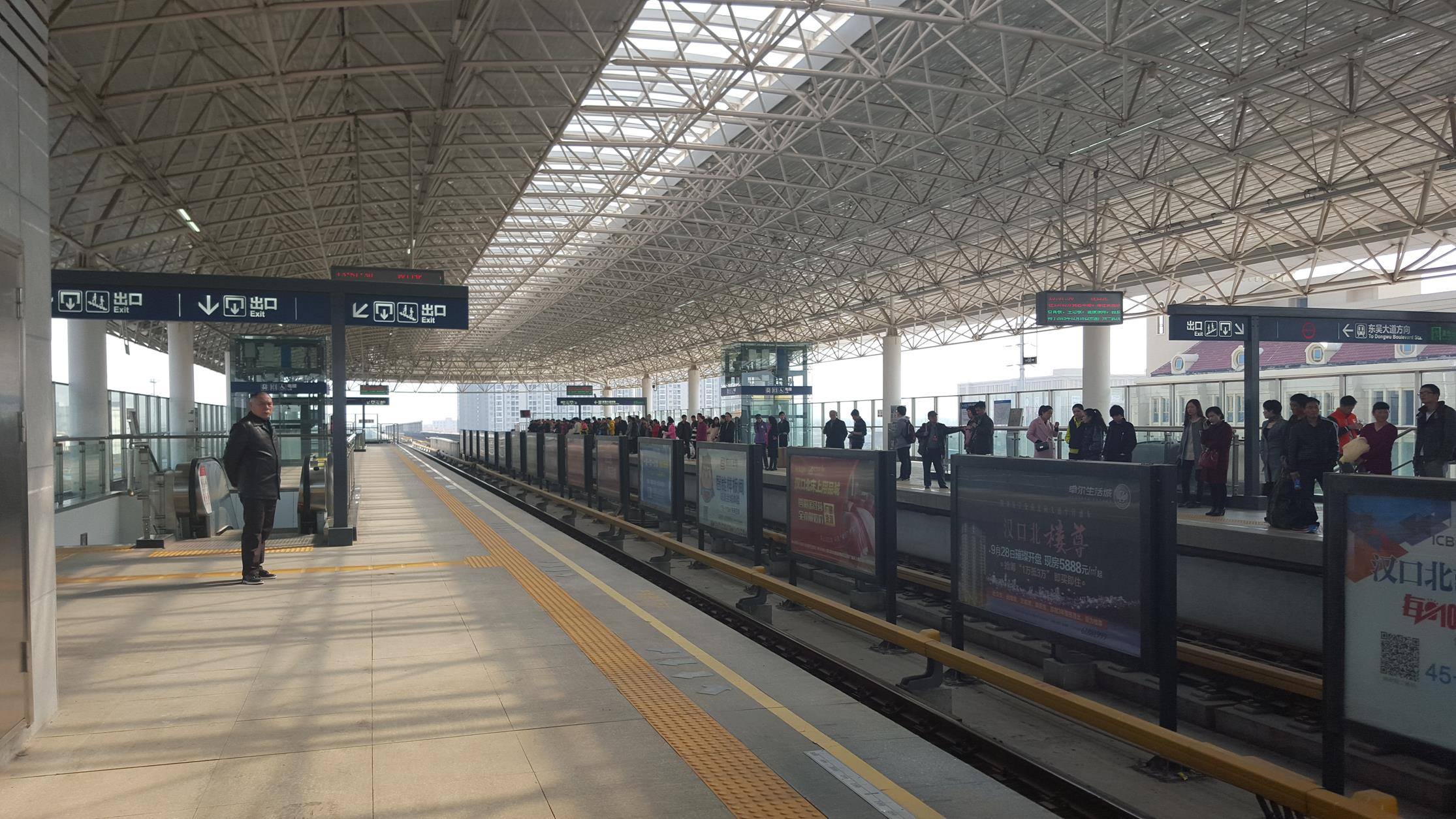 Platfrom of Hankou North Station, Wuhan Metro